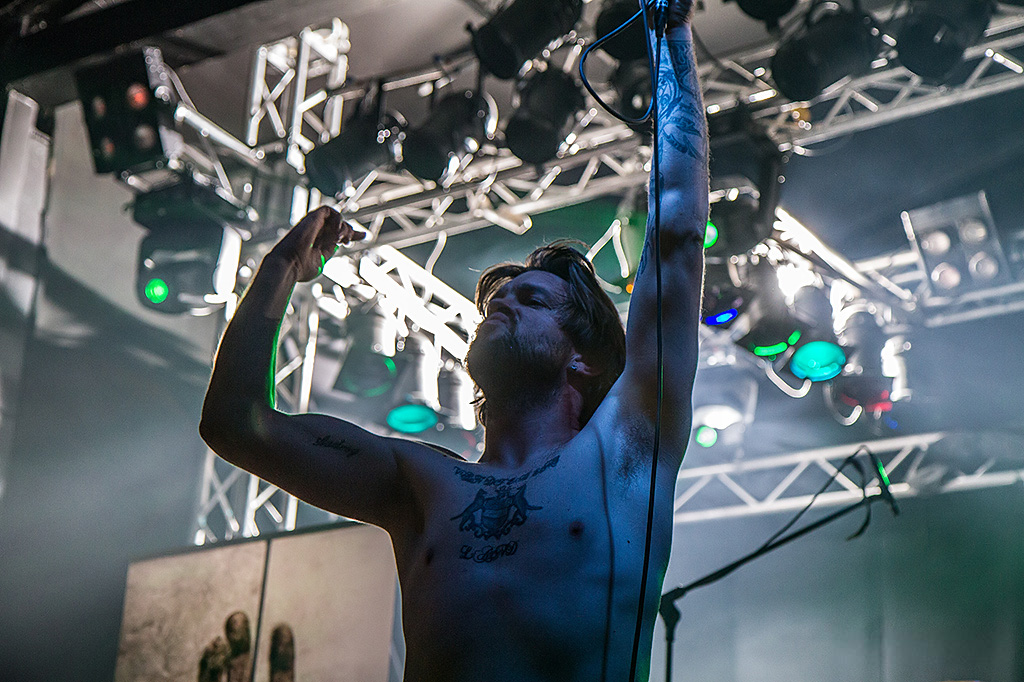 Psycroptic - 7.12.2012 - Music Hall, Geiselwind Psycroptic, Australian technical death metal band